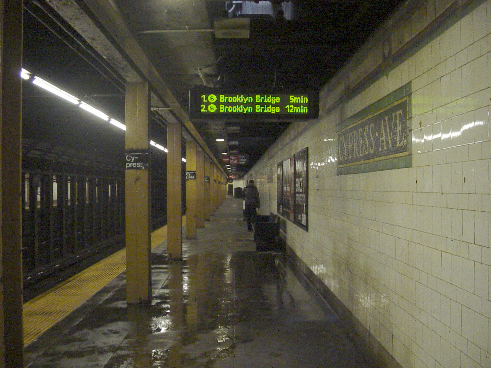 View of newly installed "countdown clock" at Cypress Avenue (IRT Pelham Line) station, southbound platform.